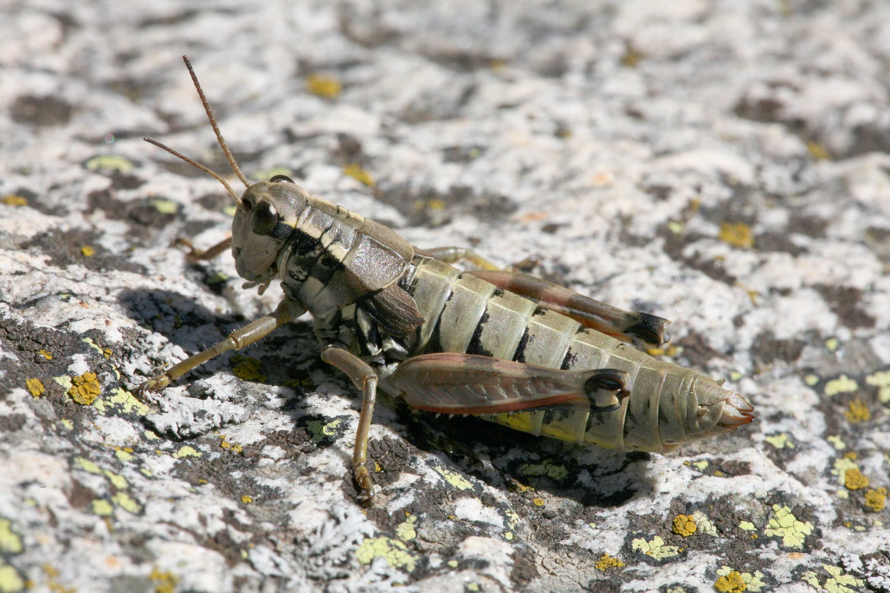 Female grashopper Podisma pedestris, seen in the swiss Alps at about 2000m. Length of the speciemen was about 4cm.